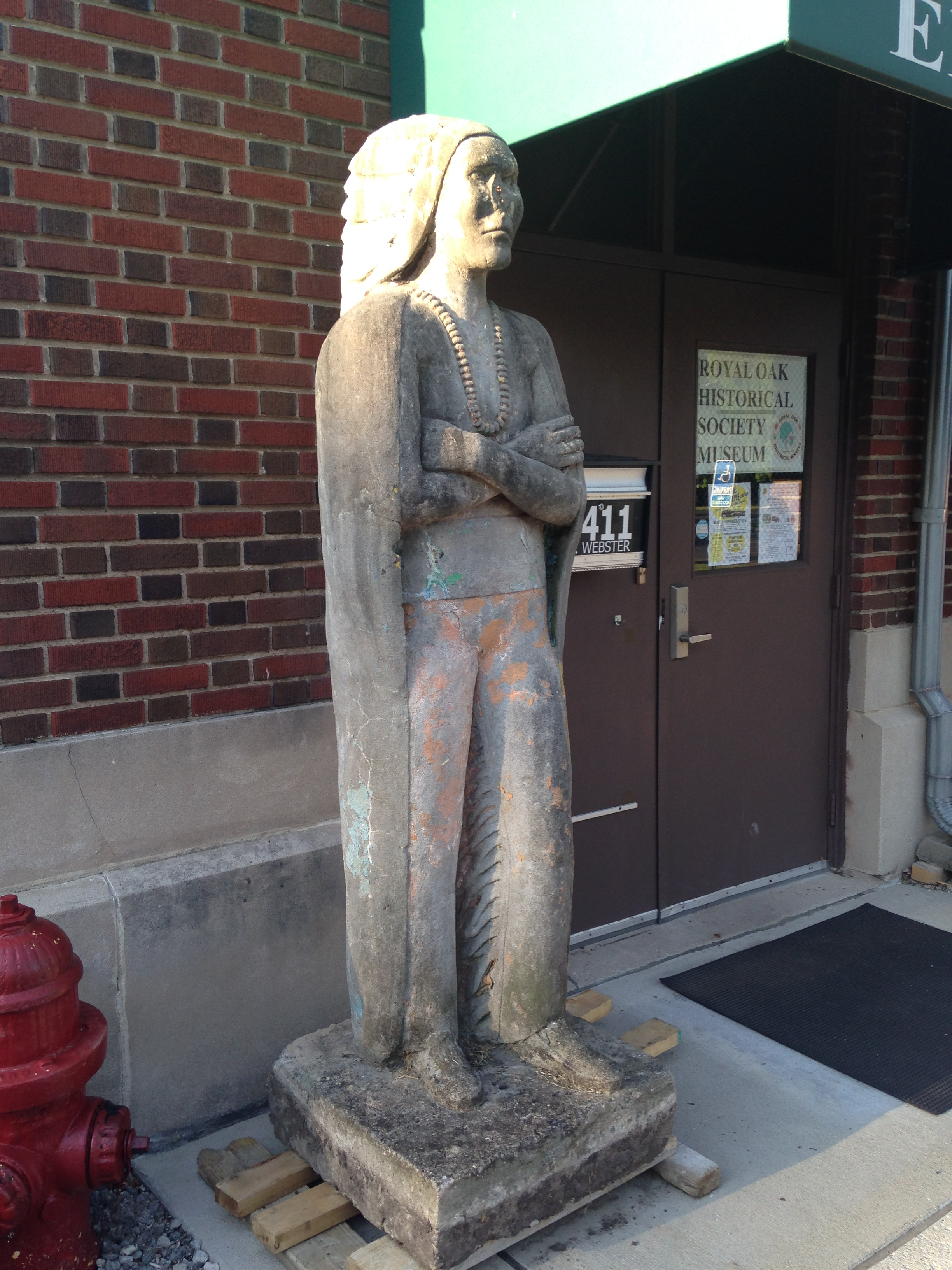 Original statue from Hedge's Wigwam in Pleasant Ridge on display at the Royal Oak Historical Society Museum